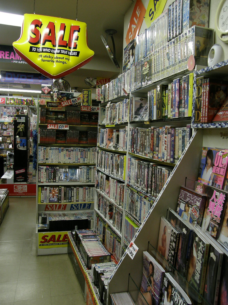 video-yasuuriou-sannomiya